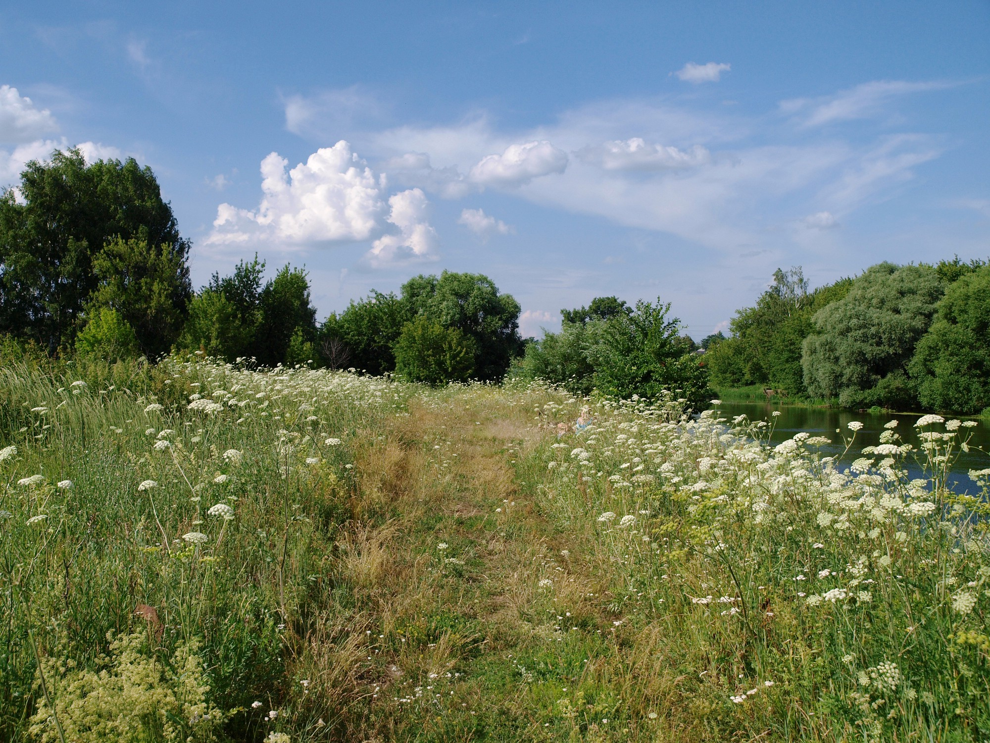 Pavlovsky Posad, Moscow Oblast, Russia. View across the Klyazma River, to the village of Gorodok and Gorodok weaving mill.